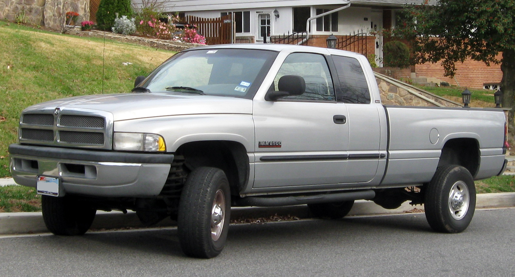 1994-2002 Dodge Ram 2500 photographed in Washington, D.C., USA.